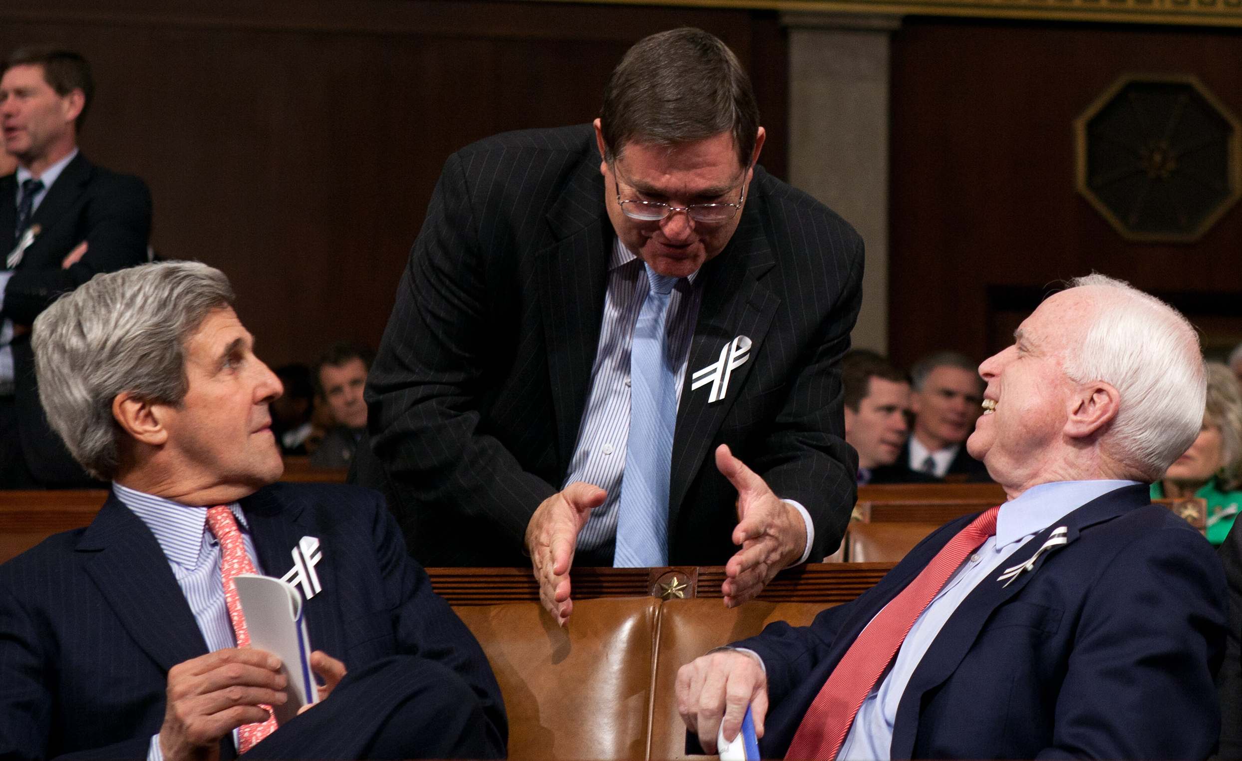 This is an alternate crop of an image already uploaded.